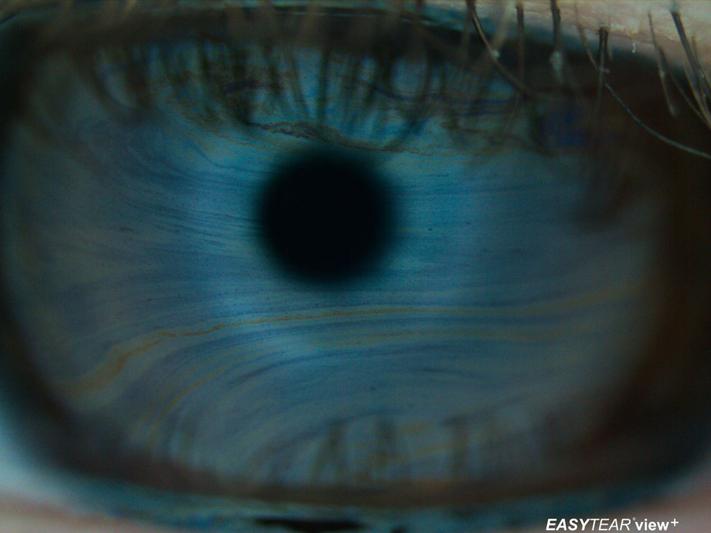 Pattern lipidico 2